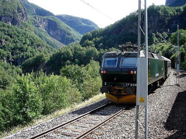 Flåmsbana